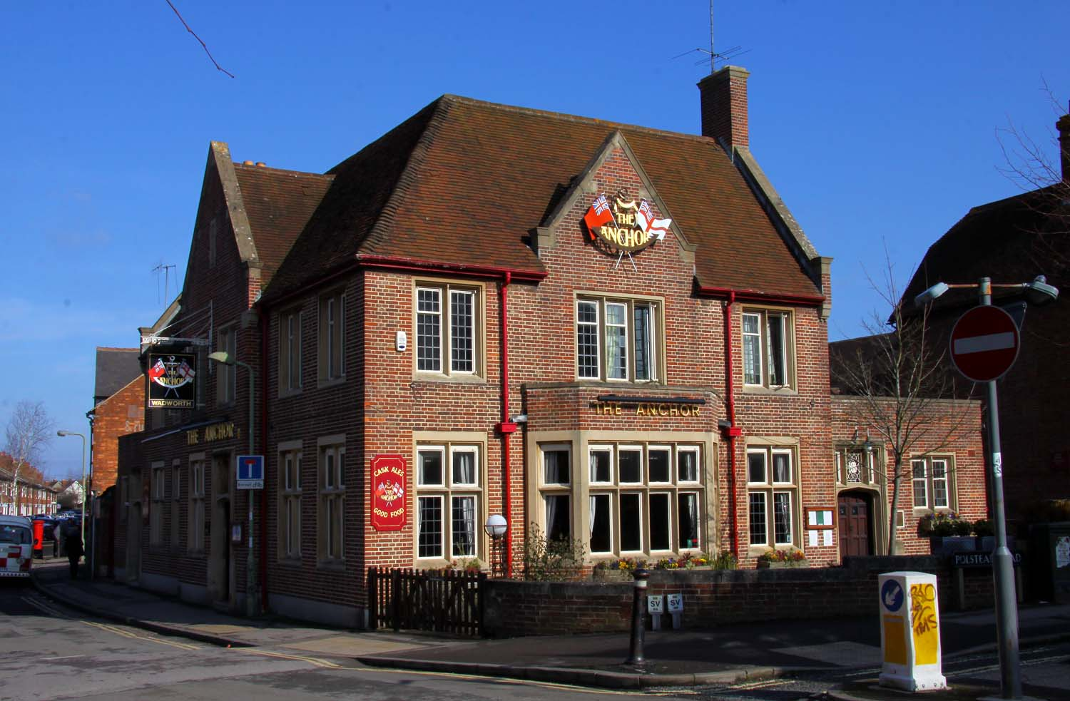 The Anchor in Hayfield Road This pub has been known locally as the Dolly's Hut for decades.